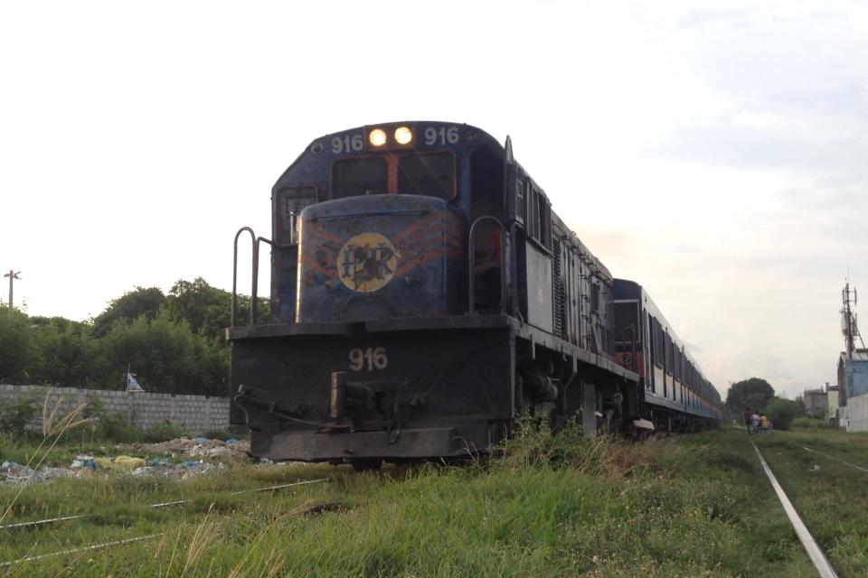 Philippine National Railways' GE U14C (DEL 916 [formerly 908]) about cross a level crossing at Sucat, Muntinlupa City.